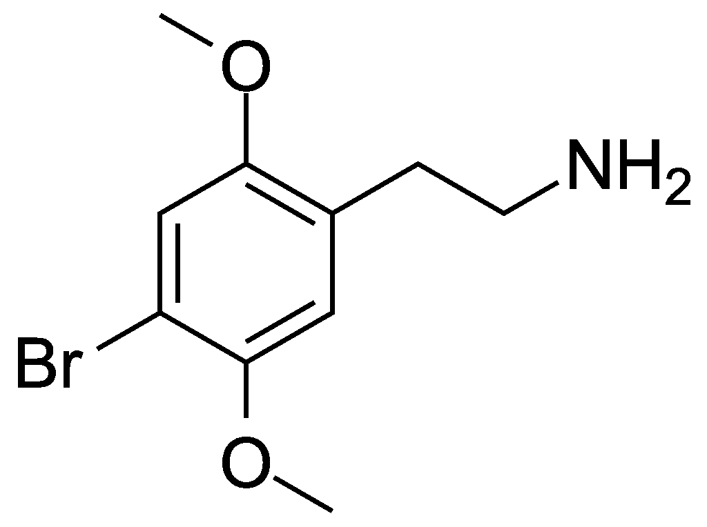 Chemical structure of 2-CB-Chemdraw